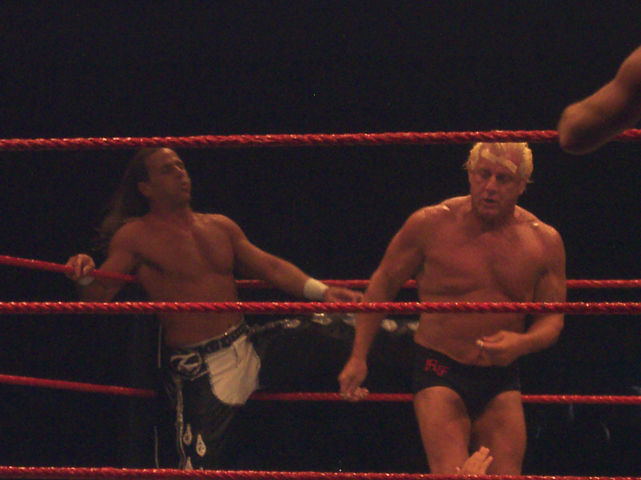 Shawn Michaels and Ric Flair @ Adelaide, South Australia 'RAW' house show on the 28th of October '05